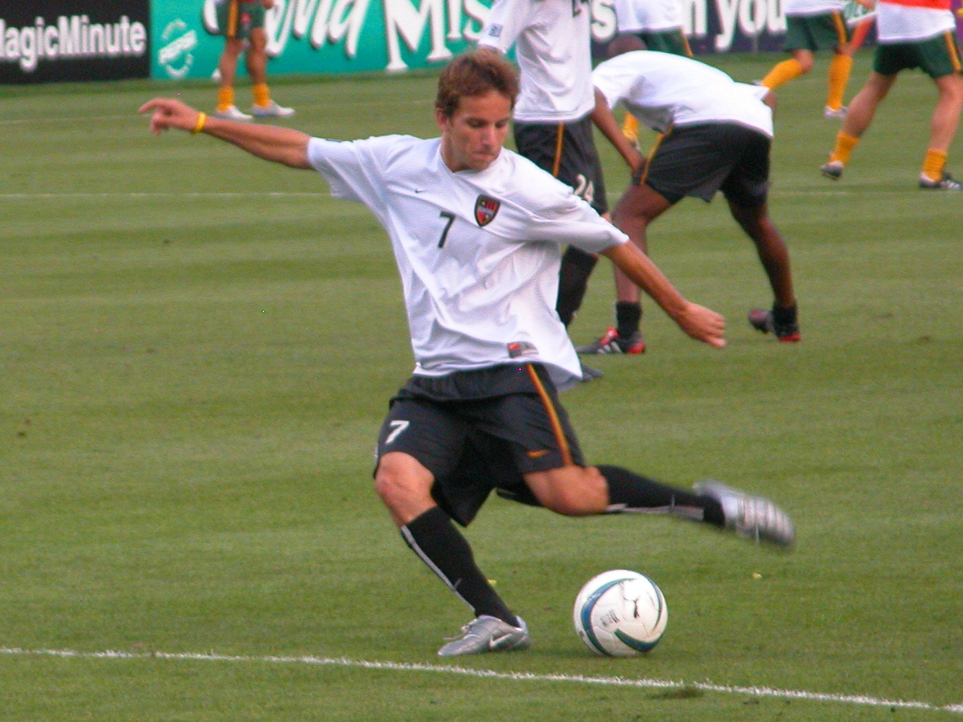 Mike Magee at pre-game warmups at the home depot center.